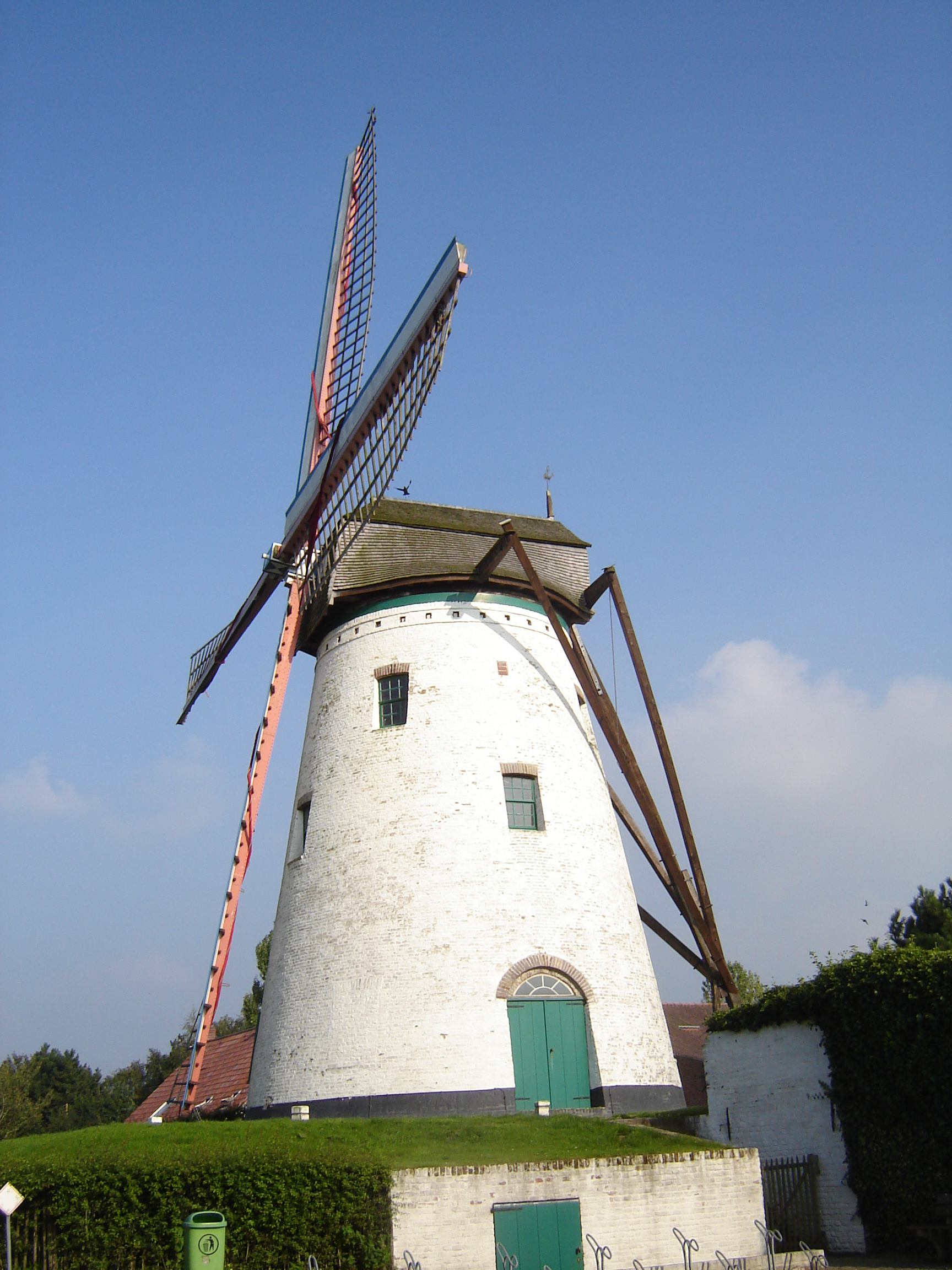 "Witte Molen" windmill (litt. "White Mill") in Roksem. Roksem, Oudenburg, West Flanders, Belgium